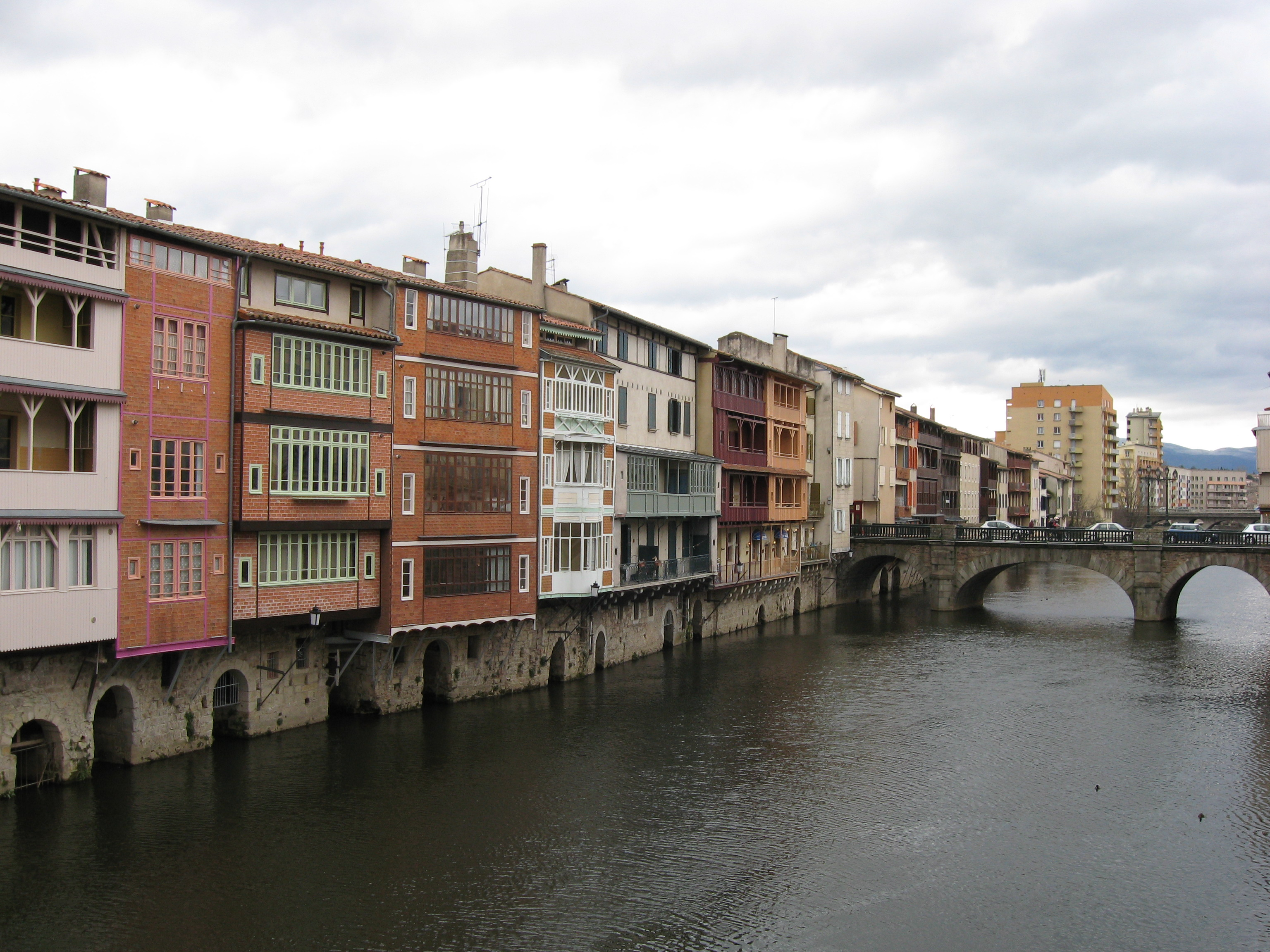 Maisons sur l'Agoût, Houses by the Agout River in Castres